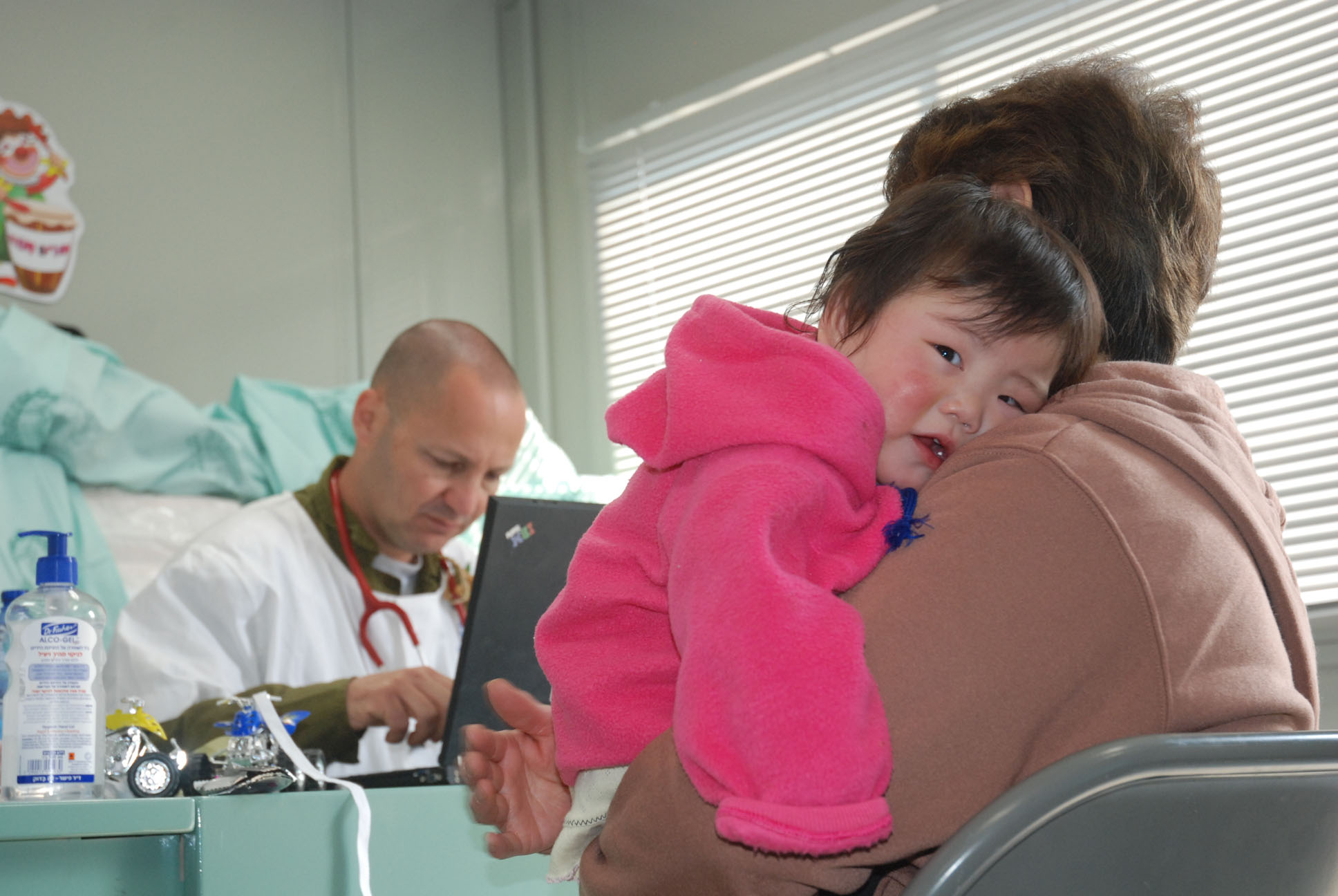 March 30, 2011. This morning Sanae (sp.), an 11-month-old baby who was left homeless after the tsunami disaster, arrived at the IDF delegation's medical clinic at Minamisanriku accompanied by her grandmother. Sanae, who suffers from an inflammation of the eye, was treated at the clinic by Lt. Col. Dr. Amit Assa, a pediatrician, Lt. Col. Orly Weinstein, an eye specialist, and Capt. Galit Bidner, a certified nurse. Sanae's grandmother received medicine from the team, along with an explanation how to best continue future treatment, and was invited to return to the clinic in two days' time. She was also given diapers and toys for Sanae. Other than Sanae, the doctors treated dozens of other patients with a host of medical problems since this morning, assisted by translators, both Israeli and local. Click to see video footage of Sanae being treated.